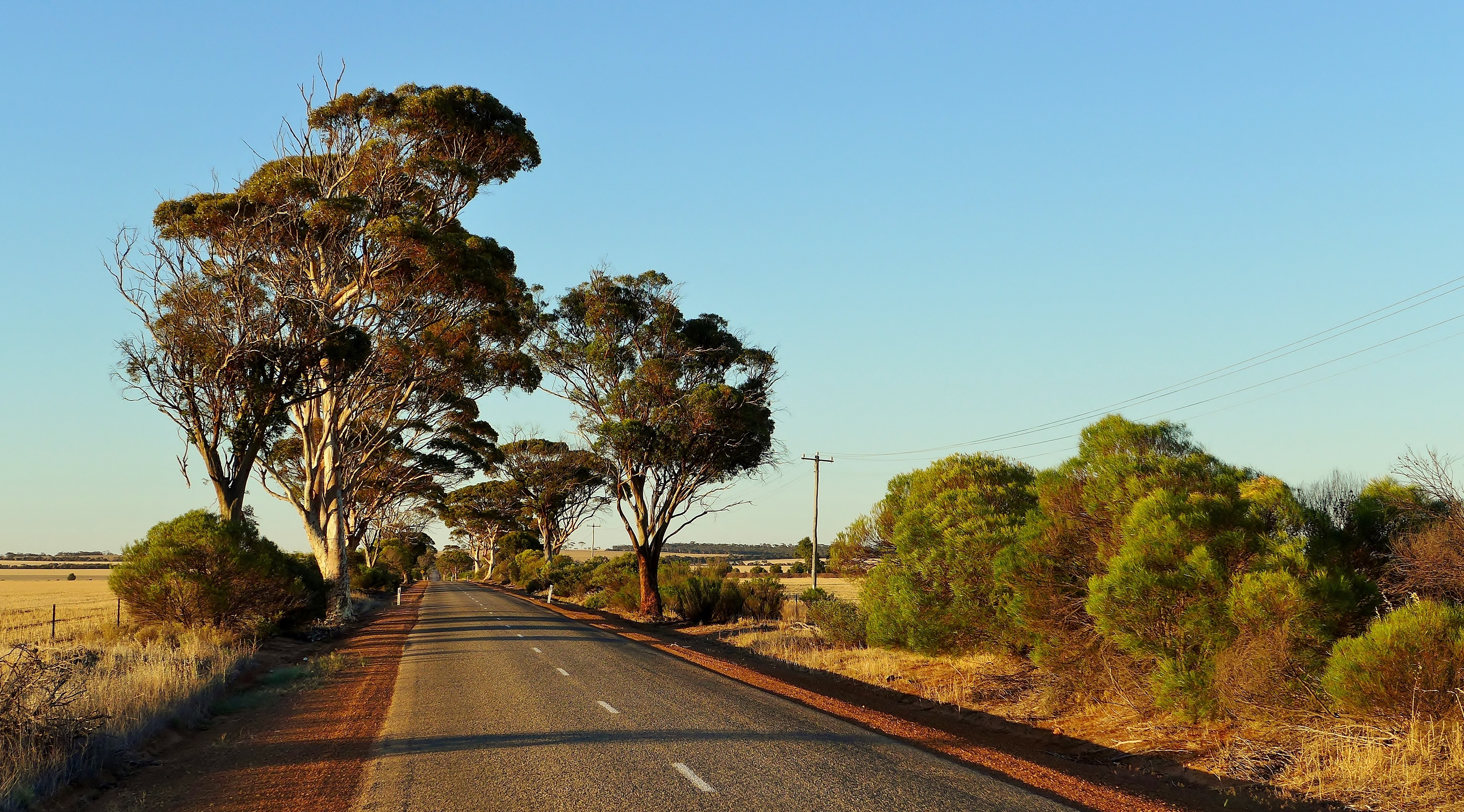 A view of the Bruce Rock-Merredin Road, Western Australia, looking north (towards Merredin), between the intersections with Korbel East Road (to the south) and Korbelkulling Road (to the north).